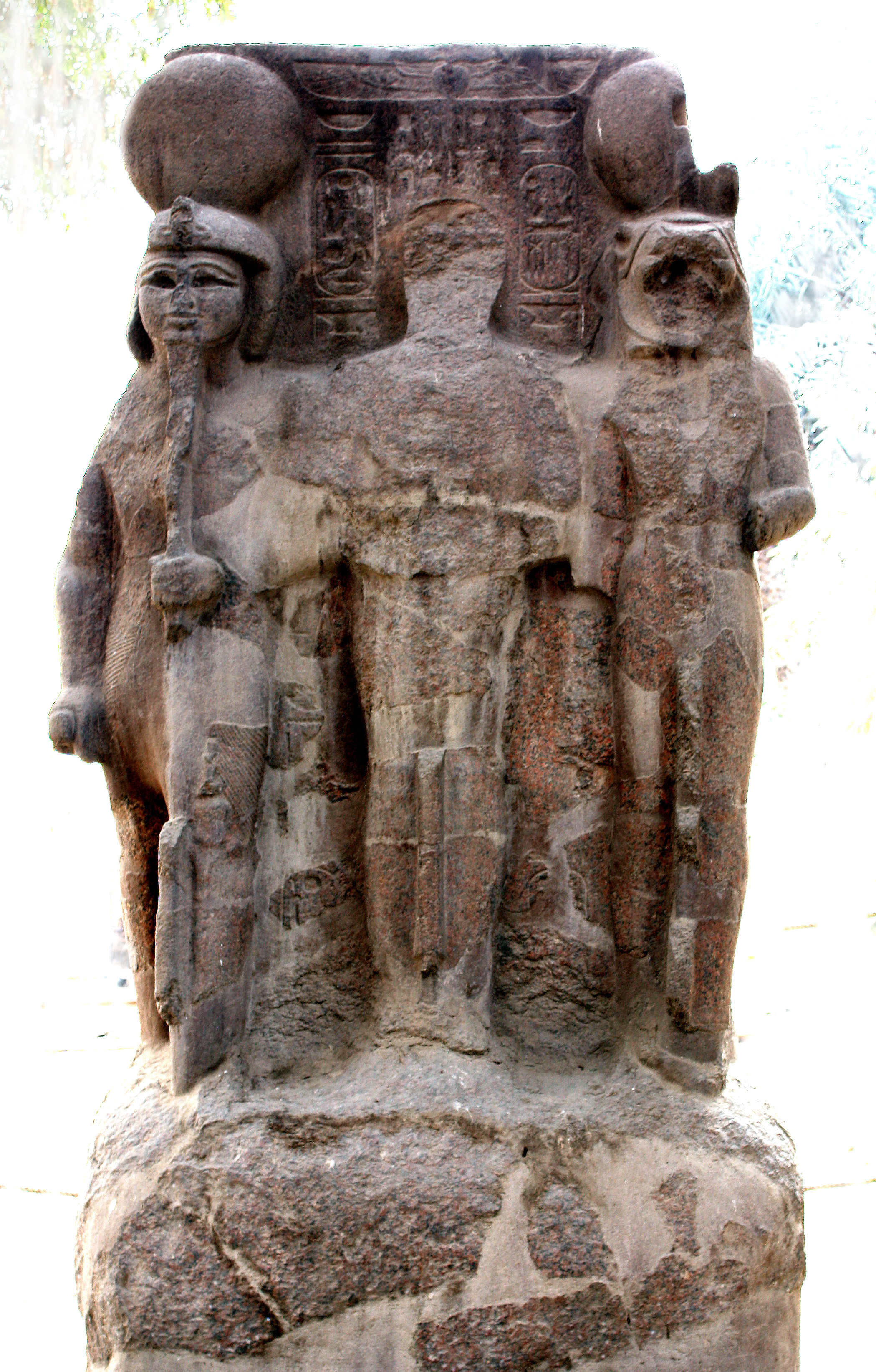 Statue of the triad of Memphis in the Memphis open air museum in Egypt.